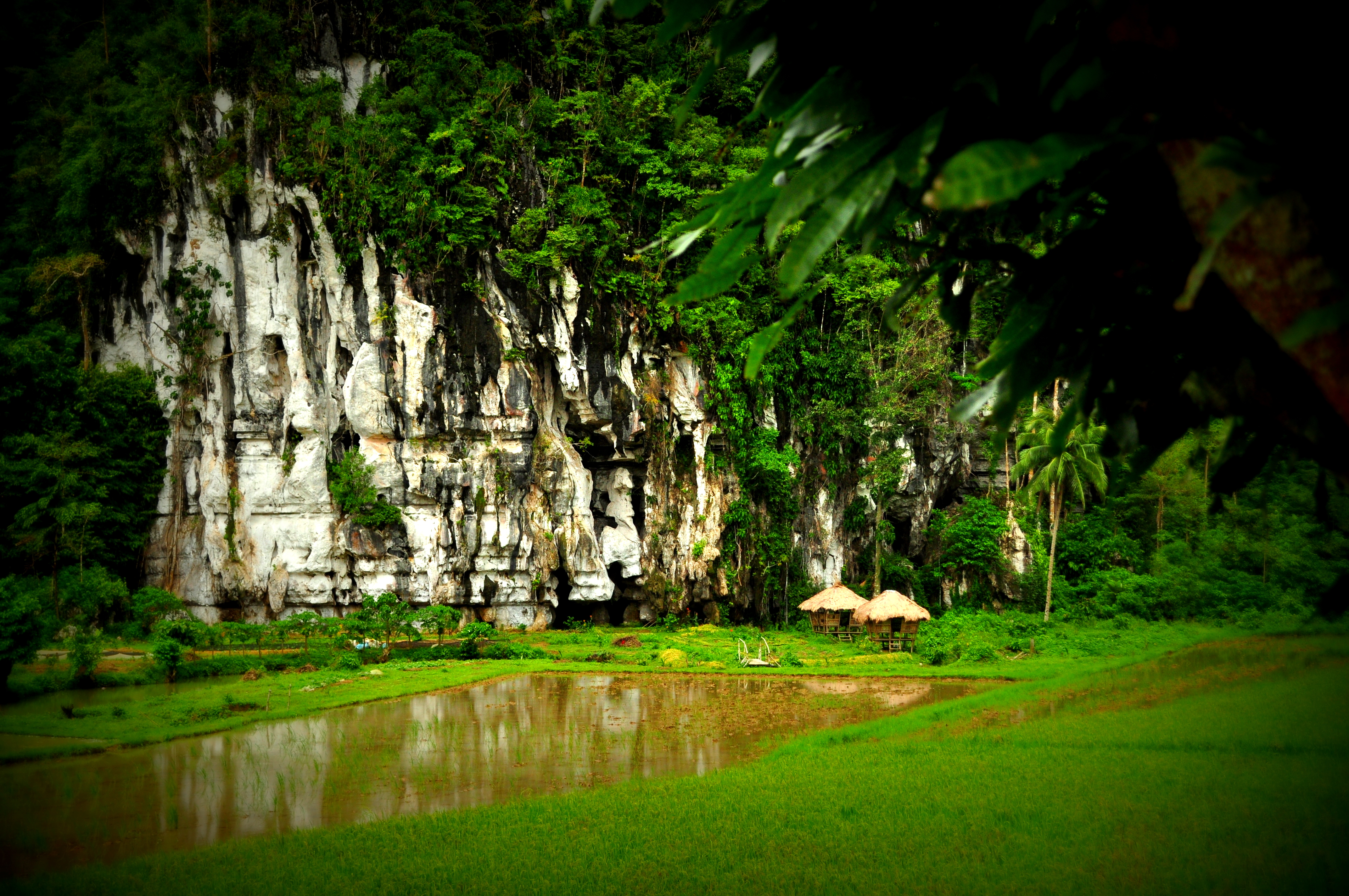 A group of elephants on top of one another serves as a sanctuary for two nipa huts. Found in Puerto Princesa, Palawan. The Elephant Cave.